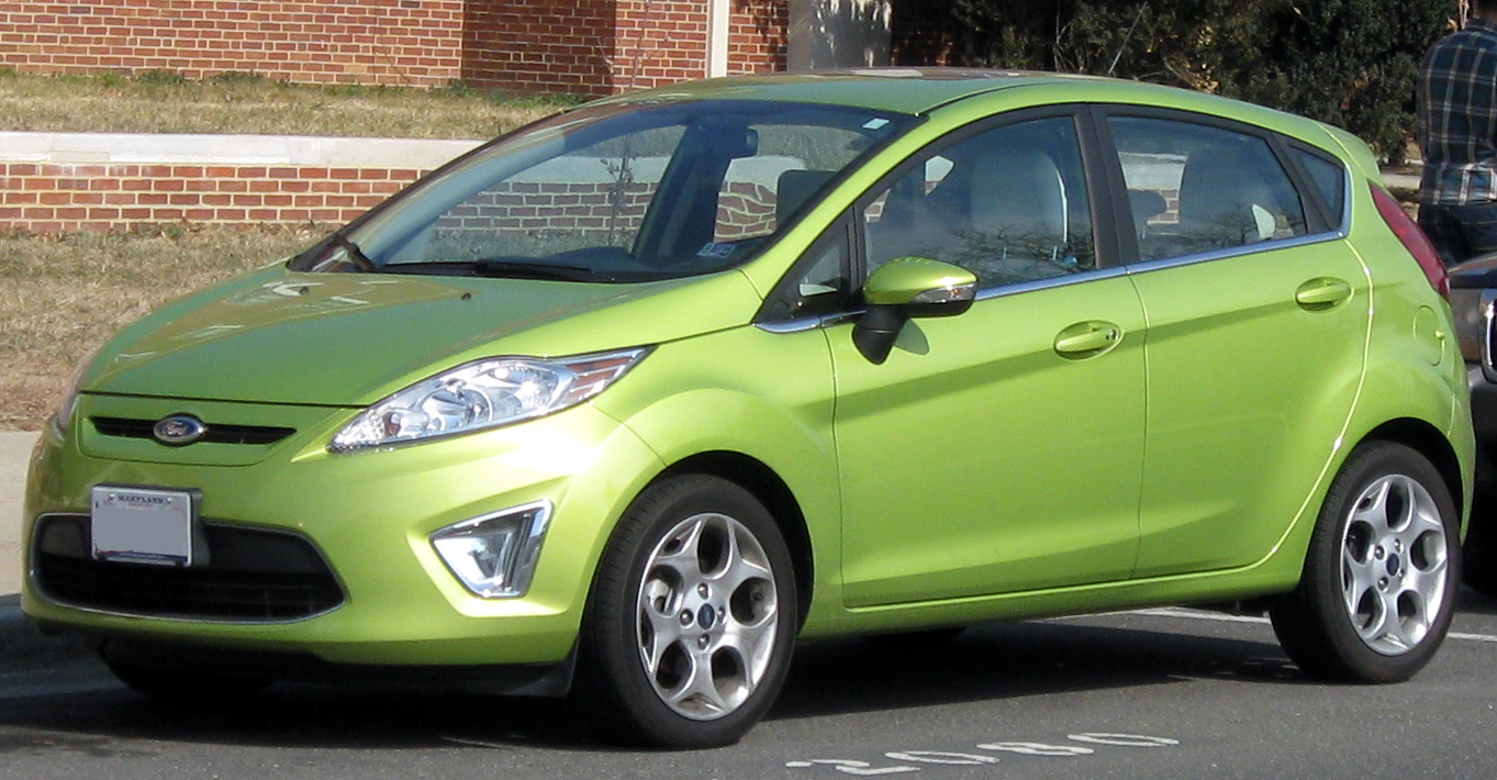 2011 Ford Fiesta photographed in College Park, Maryland, USA.